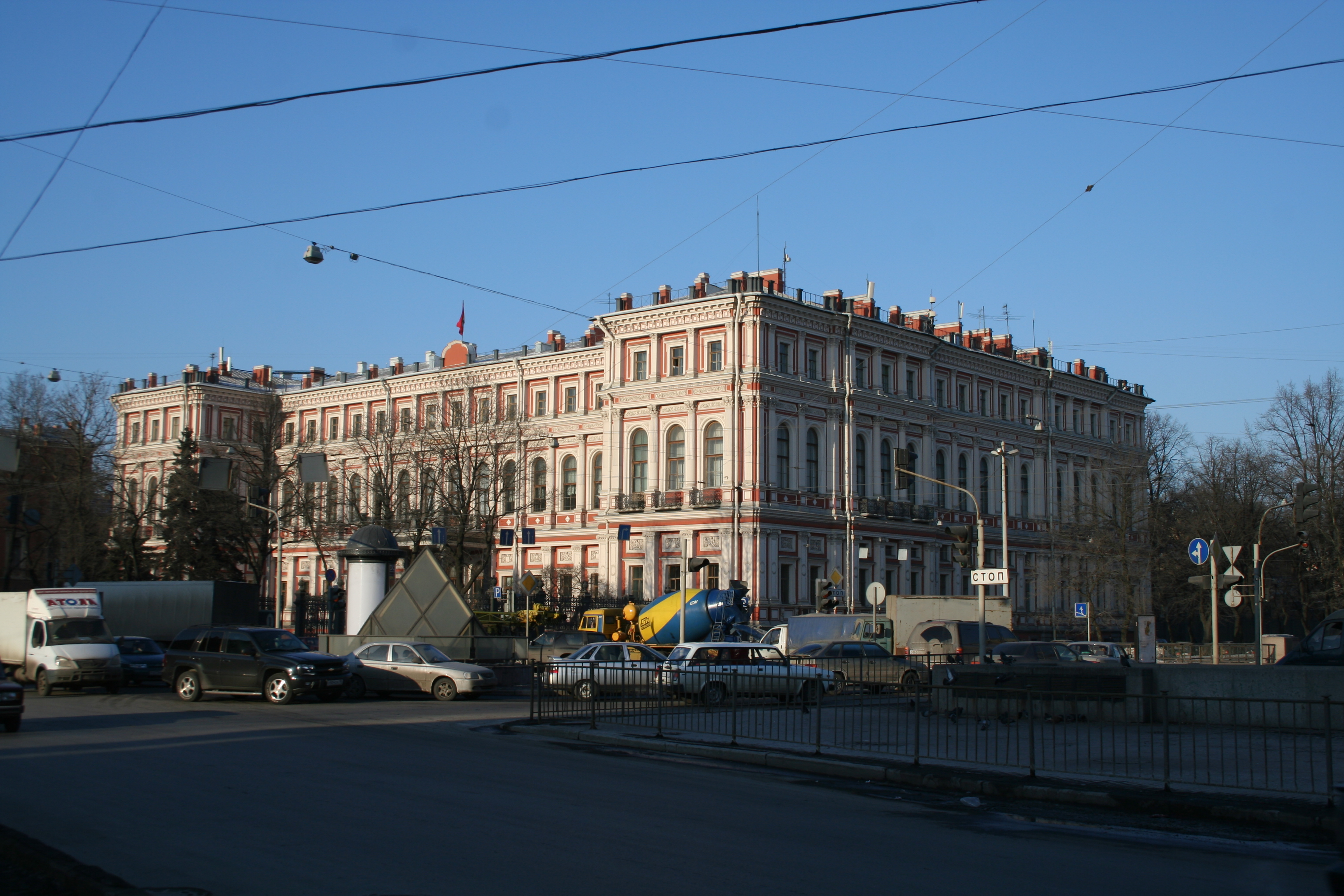 The Nicholas Palace (former the Palace of Labor) in Saint Petersburg.